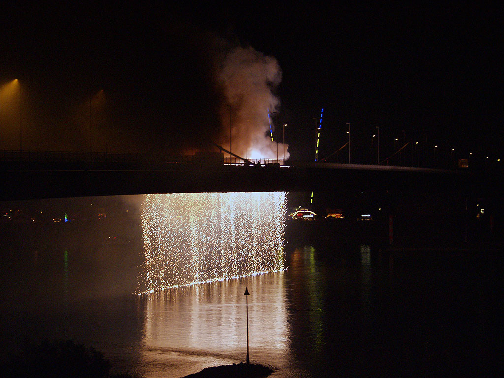 Fireworks over Duisburg-Ruhrort